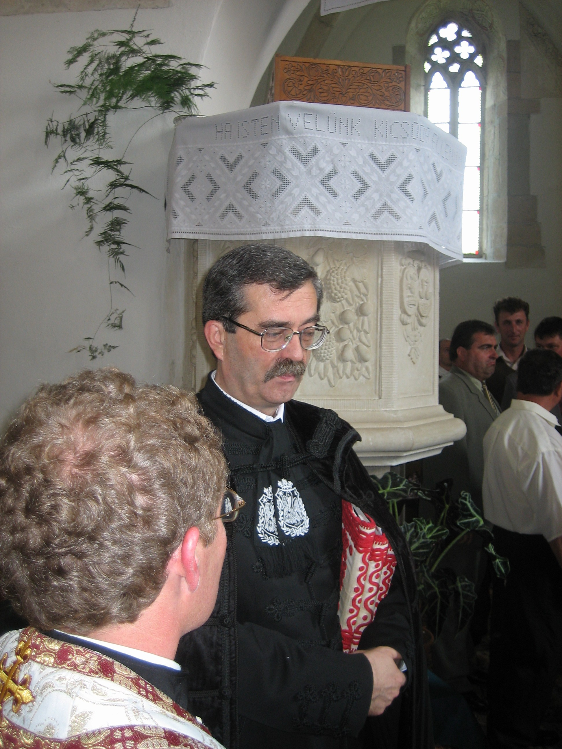 Géza Papp, the calvinist bishop of Transylvania in the calvinist church in Luncani, Cluj.